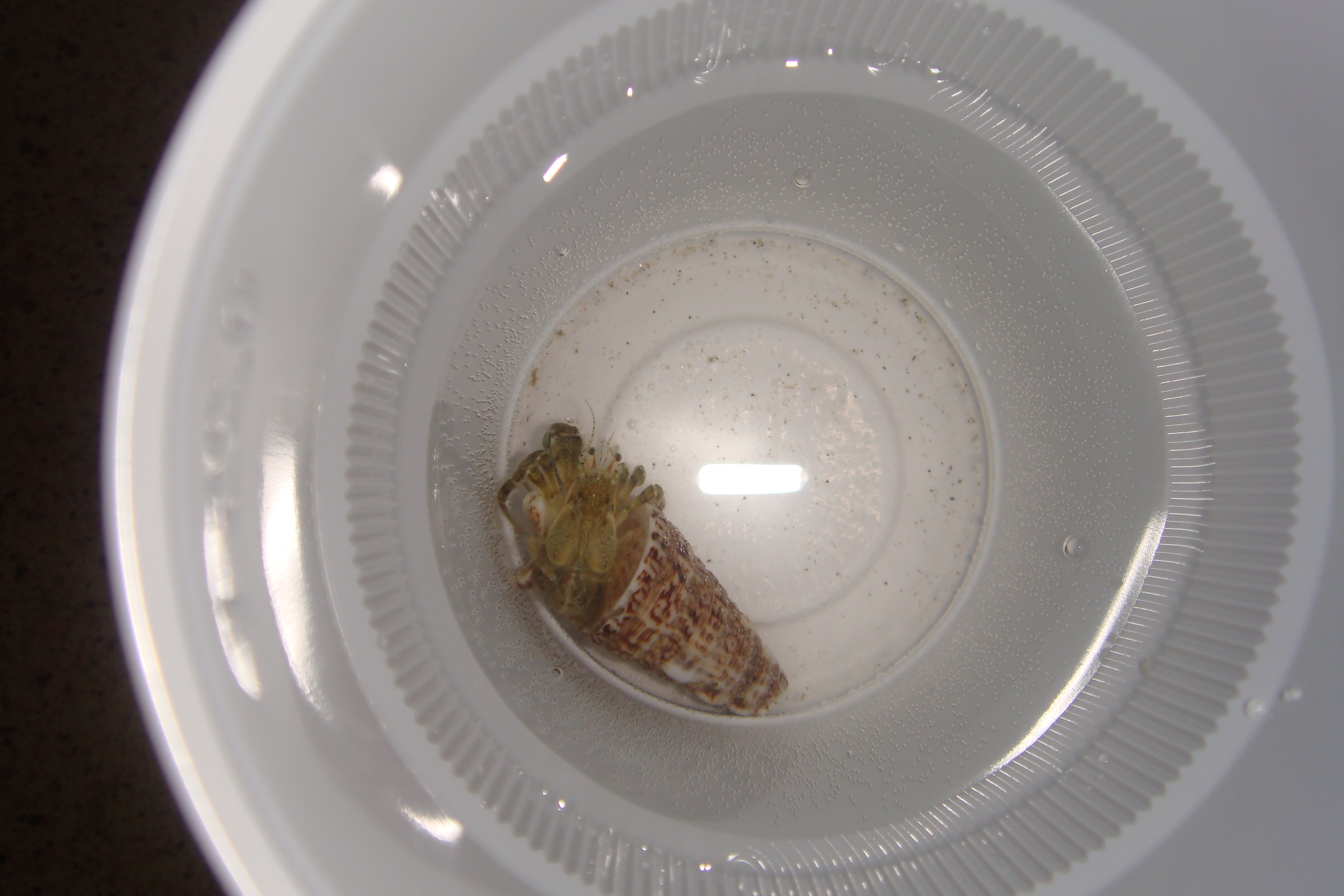 A hermit crab that was living on Variko beach, Pieria prefecture, Greece. This hermit crab is using a shell of a marine gastropoda/gastropod, probably a Cerithium species.